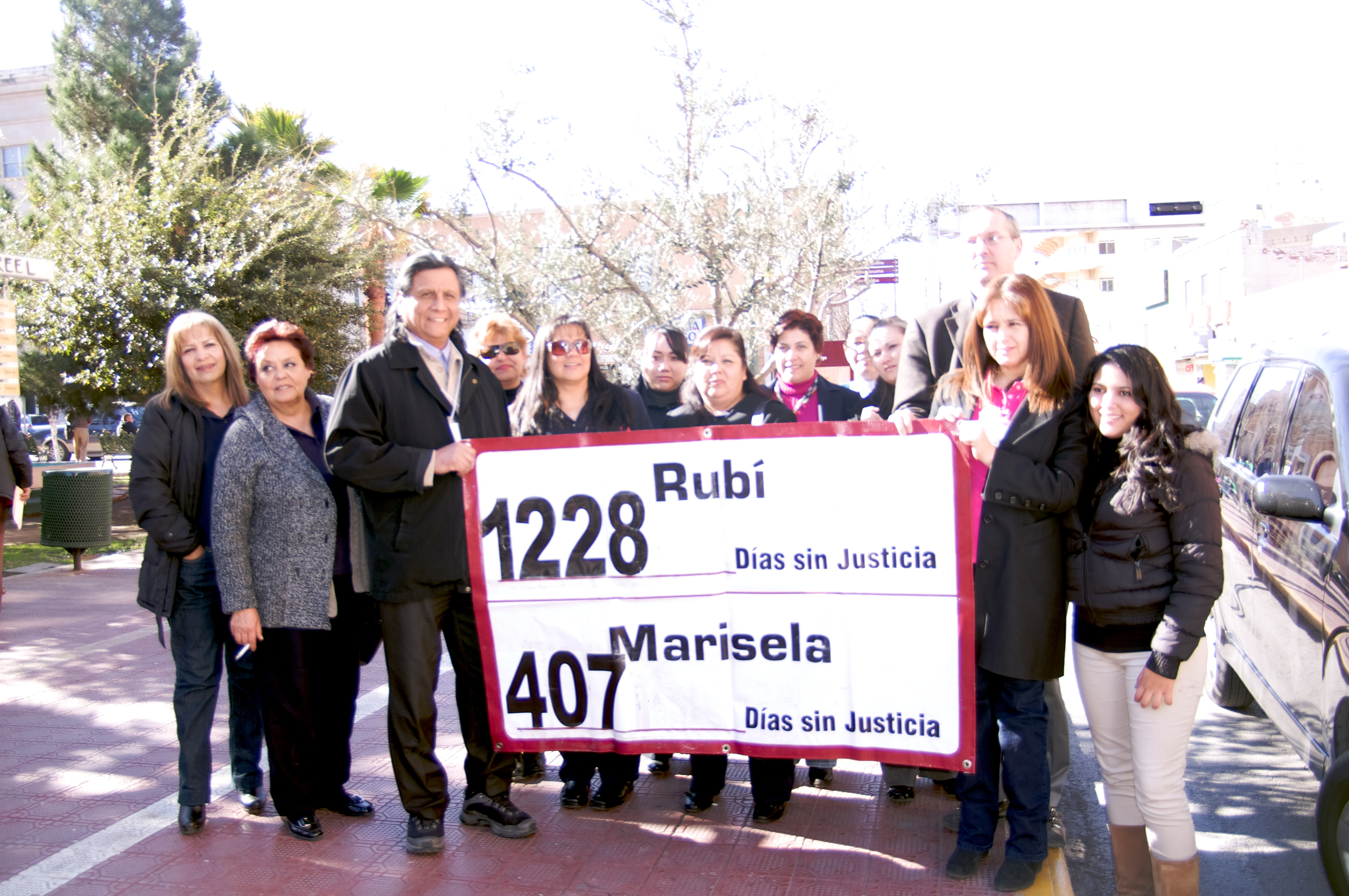 PWRDF staff members Jose Zarate and Simon Chambers stand in solidarity with staff and volunteers of the Women's Human Rights Centre in Ciudad Chihuahua, Mexico as they call for justice for the murders of Rubi and Marisela.